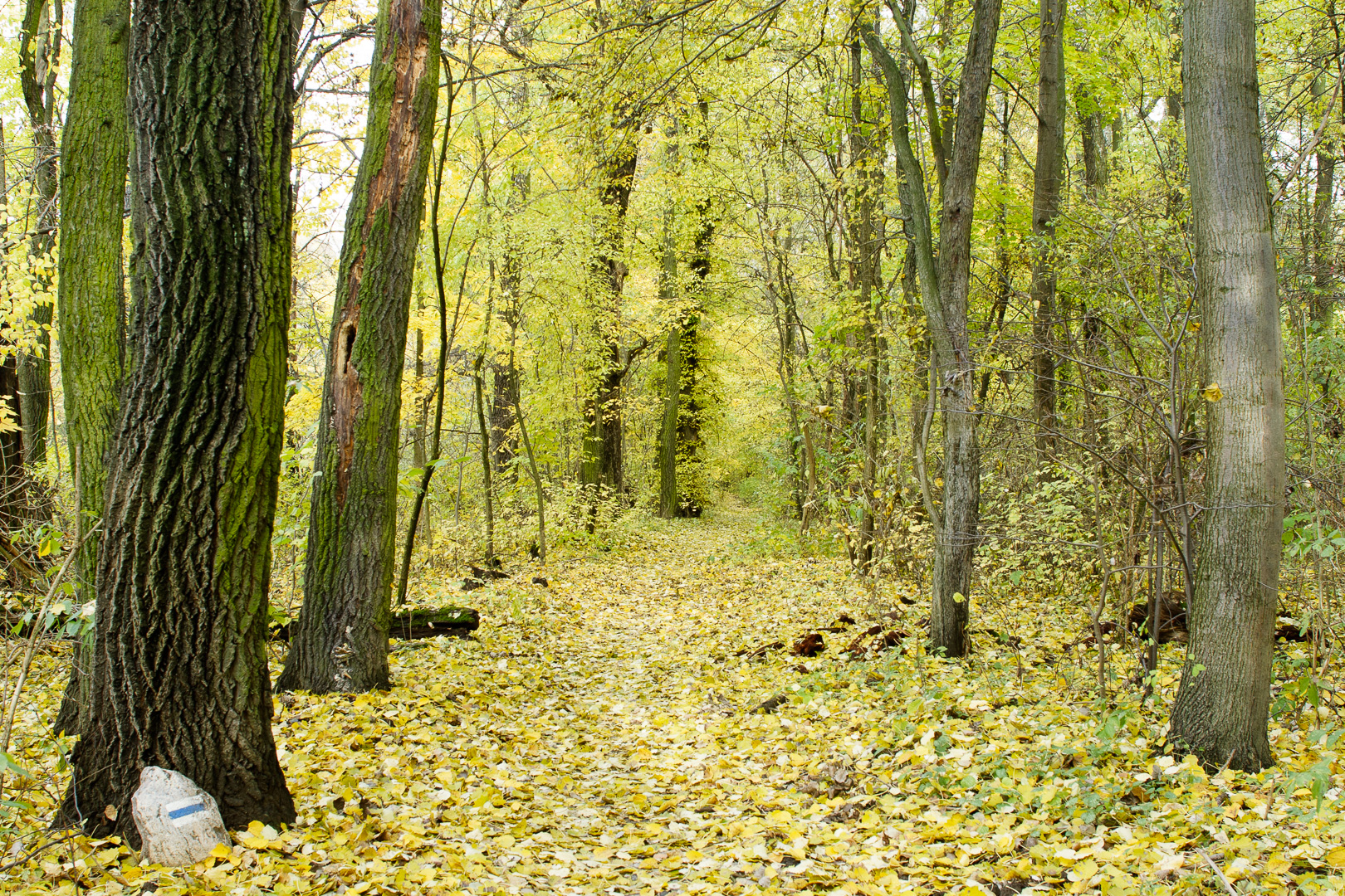 Morysin nature reserve and Morysin park in the overlapping area - a walking path along the Sobieski Canal, a marking of the hiking trail on the stone on the left side. Wilanów, Warsaw, Poland.